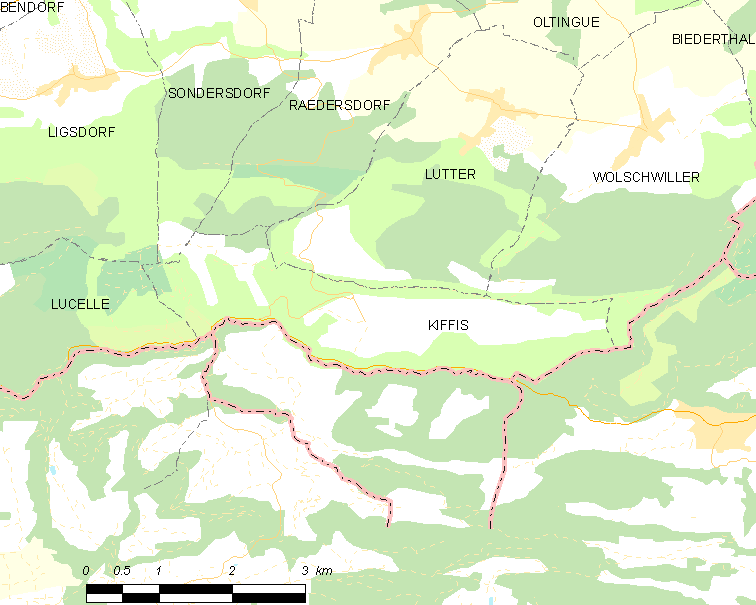 Map of French municipality